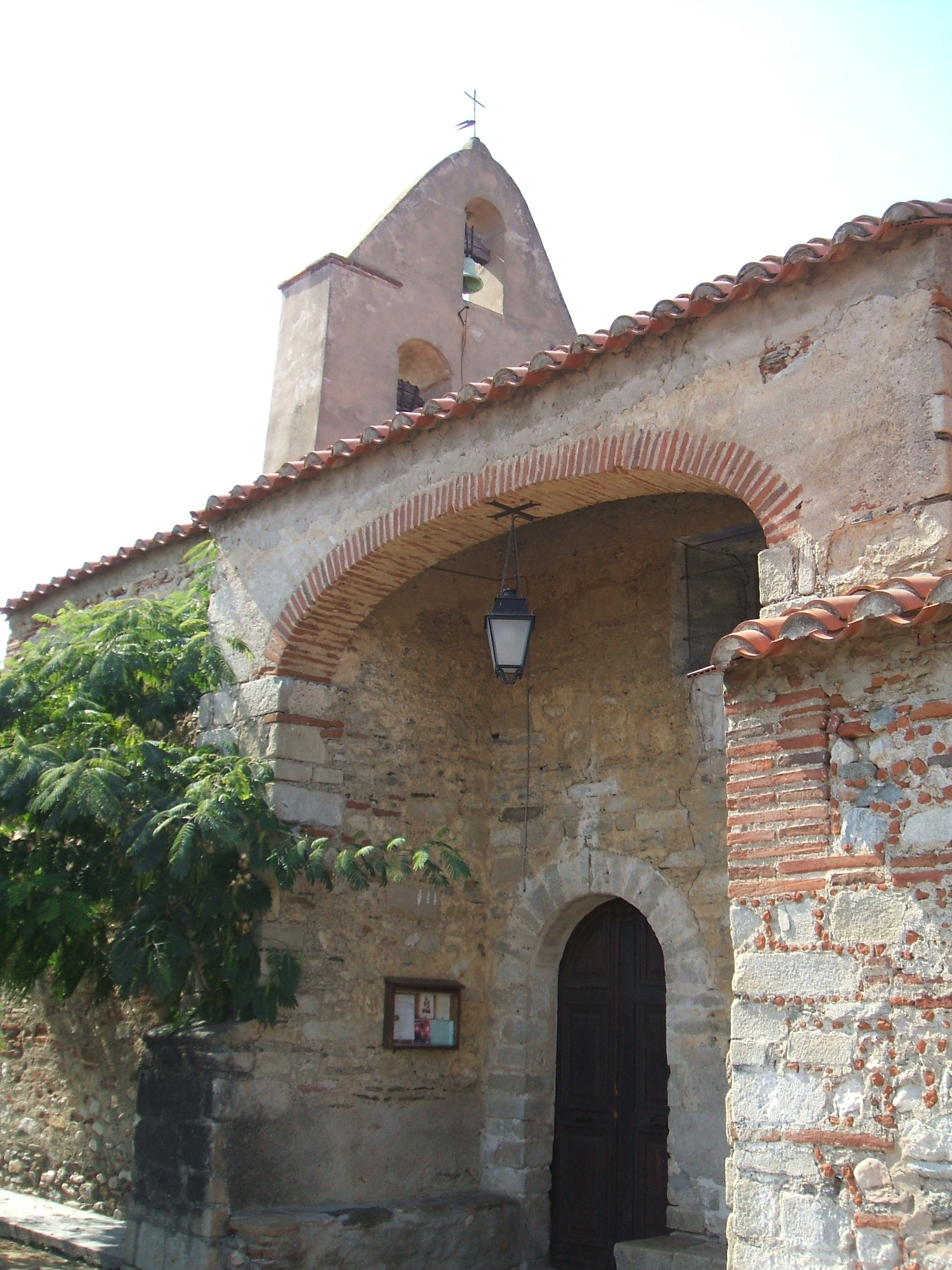 Ortaffa (département of Pyrénées-Orientales, Languedoc-Roussillon région, France) : church of Sainte-Eugénie (XIIth century, Romanesque architecture). Porch.